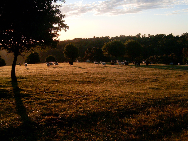 Sheep on a paddock between the Long Ridge Track and the valley of the South Eastern Freeway. Mount Osmond, Adelaide, South Australia.